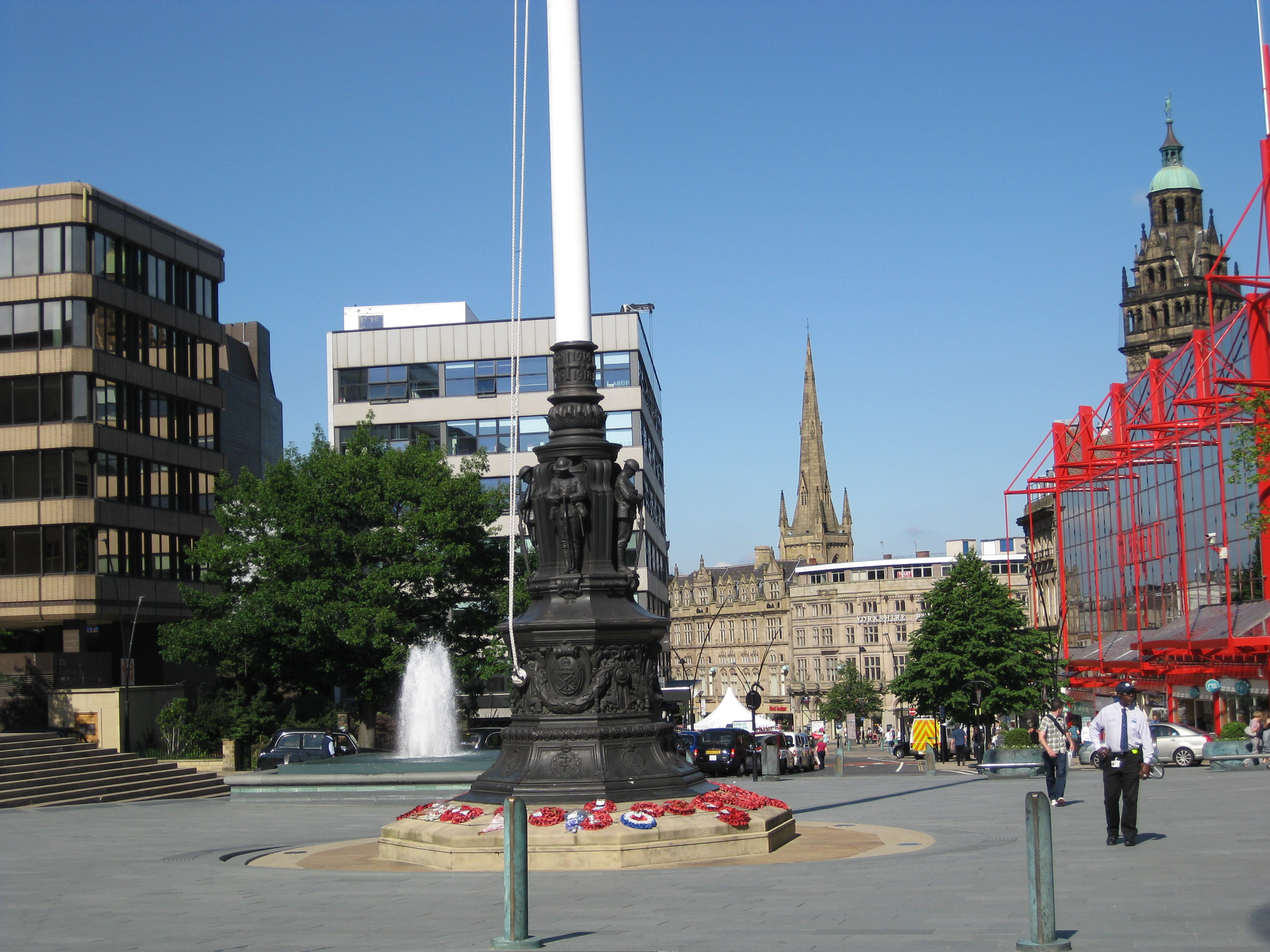 Barker's Pool, Sheffield city centre, with war memorial